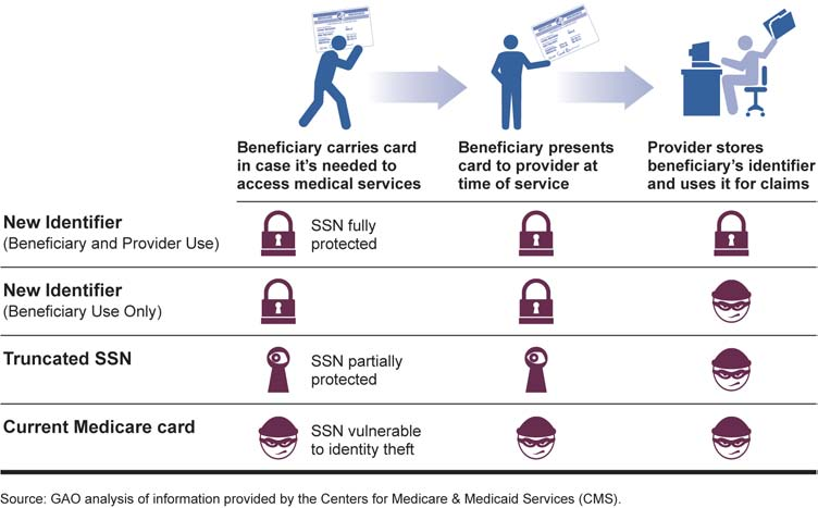 This image is excerpted from a U.S. GAO report: MEDICARE: CMS Needs an Approach and a Reliable Cost Estimate for Removing Social Security Numbers from Medicare Cards